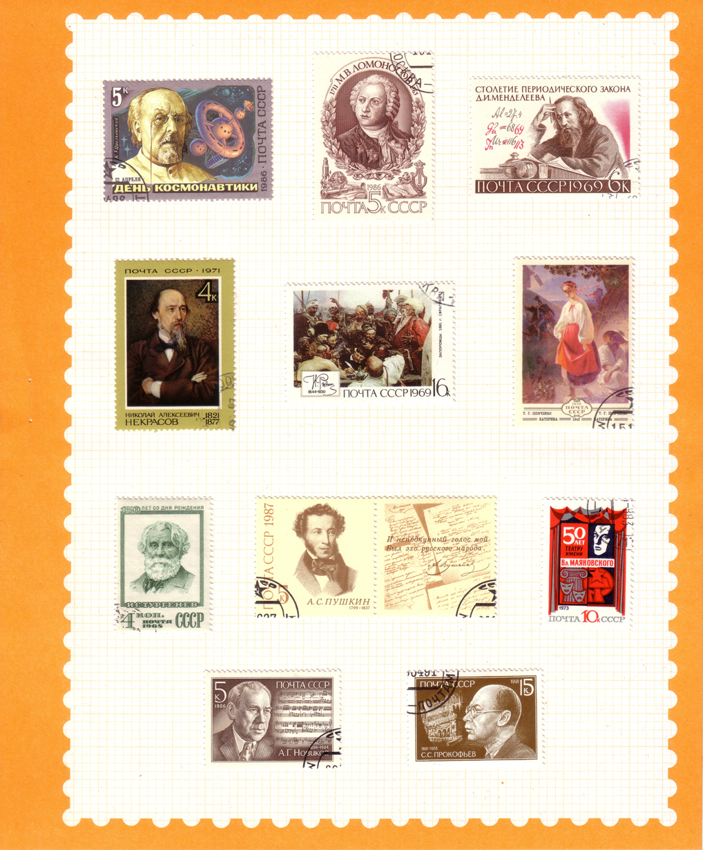 Postage stamp paper approval sheet with postage stamps of the USSR